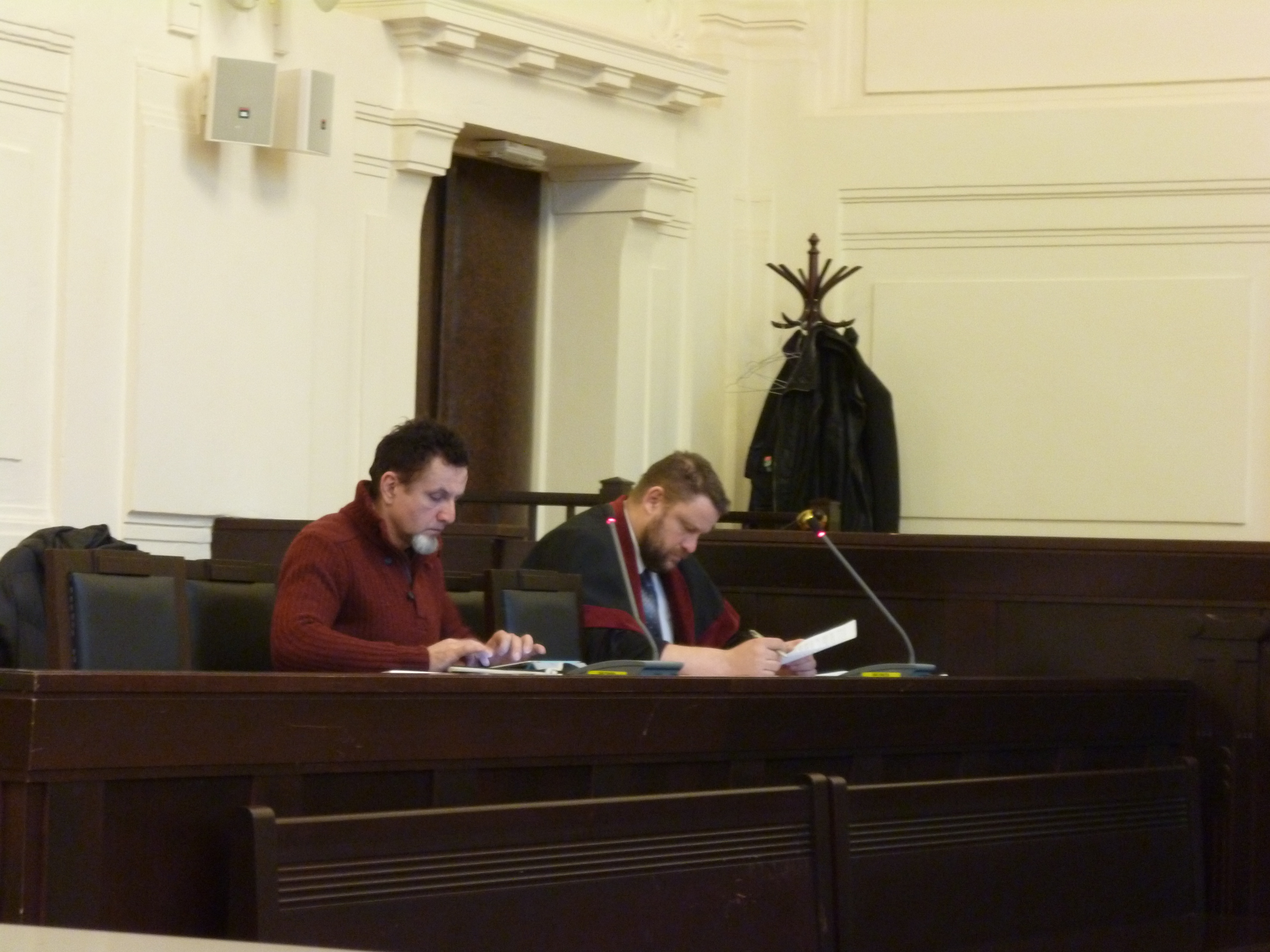 State Attorney Vladimír Mužík (right) during the manslaughter trial of Randy Blythe at the Municipal Court in Prague